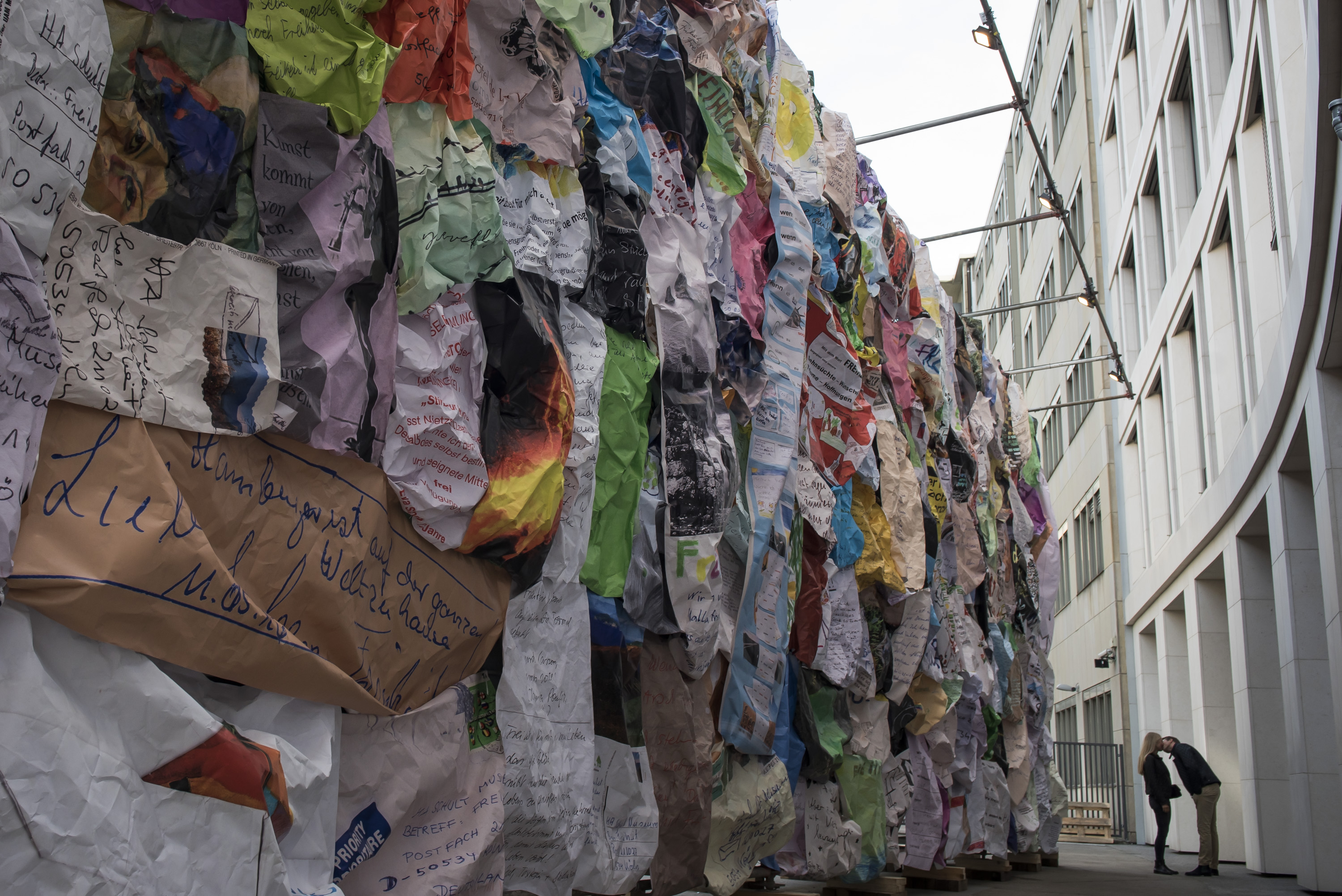 FreedomLetters Wall in Hamburg